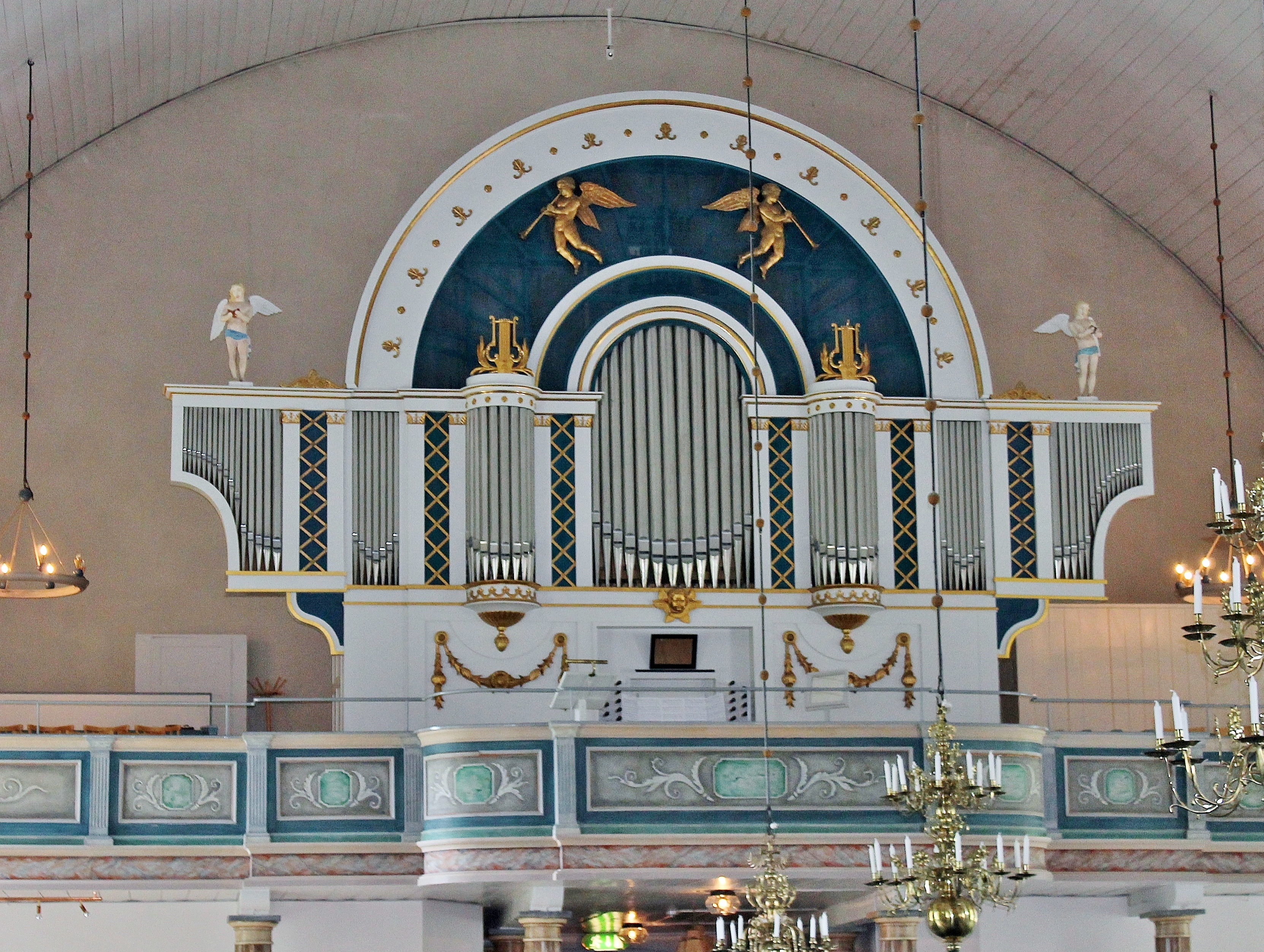 Ålem Church.Organ